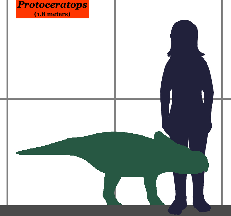 Size comparison between the ceratopsian dinosaur Protoceratops and a human.